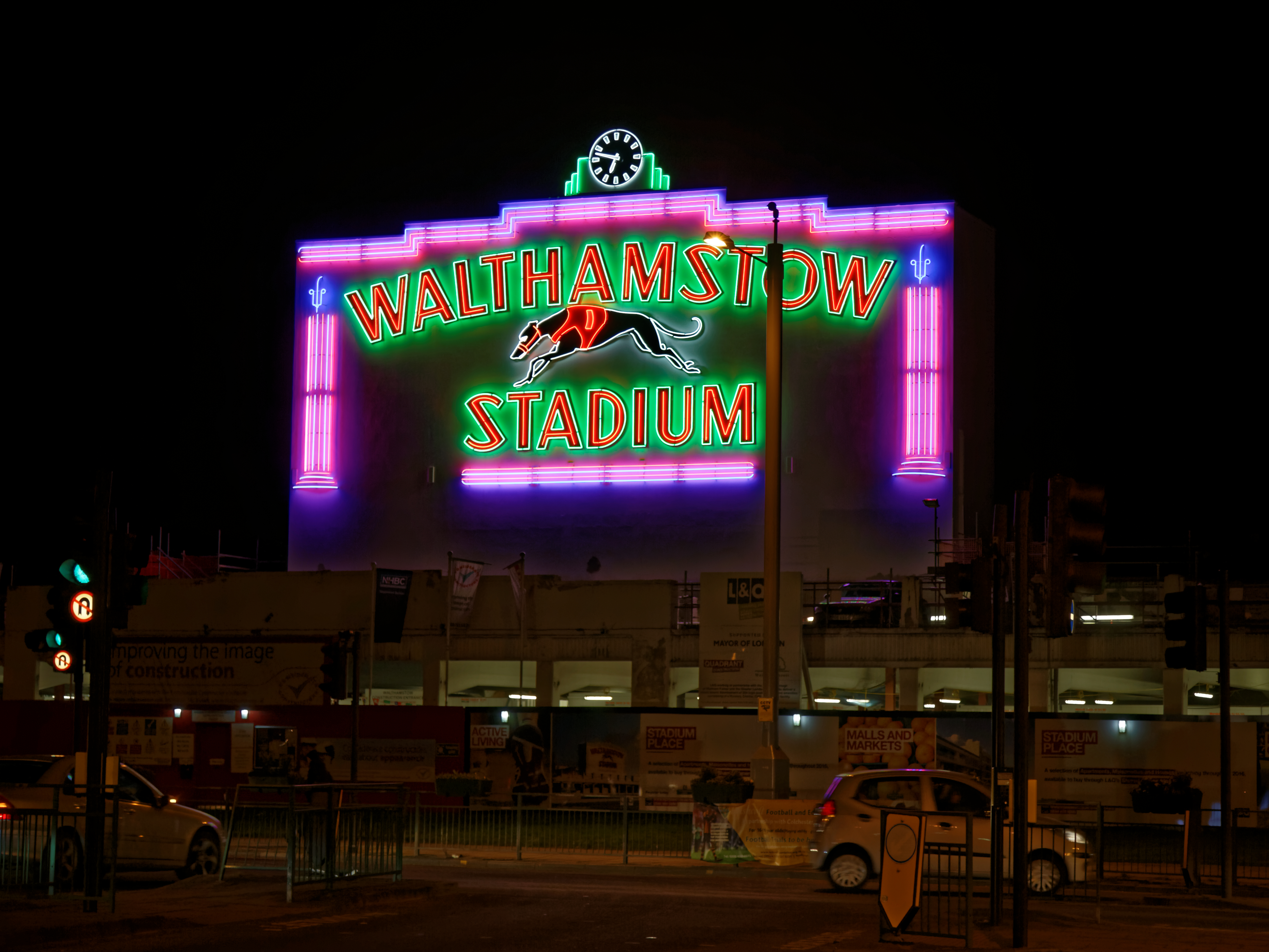 The February 2016 newly refurbished neon light frontage of the old Walthamstow Greyhound Stadium in the Borough of Waltham Forest, London. England.The greyhound stadium was closed in 2008, and has been redeveloped as 'Stadium Place,' and will include residential housing, markets and malls. The front range of the stadium, which includes the neon lighting, is Grade II listed. The photograph is taken from Walthamstow Avenue across the A12 Chingford Mount Road.Camera: Canon EOS 6D with Canon EF 24-105mm F4L IS USM lens.Software: large RAW file lens-corrected, optimized and downsized with DxO OpticsPro 10 Elite, Viewpoint 2.